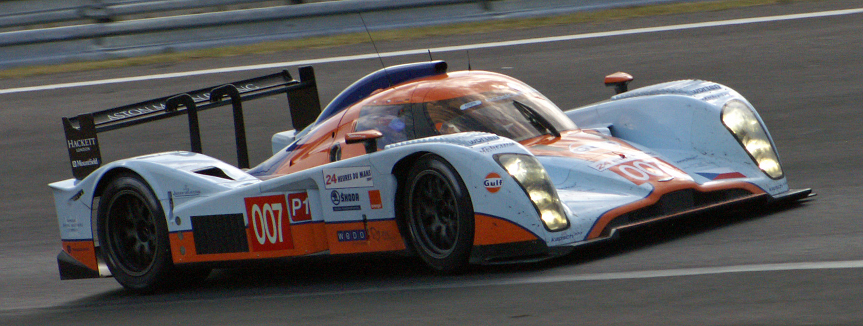 Tomáš Enge driving a Lola-Aston Martin LMP1 in Le Mans 2009